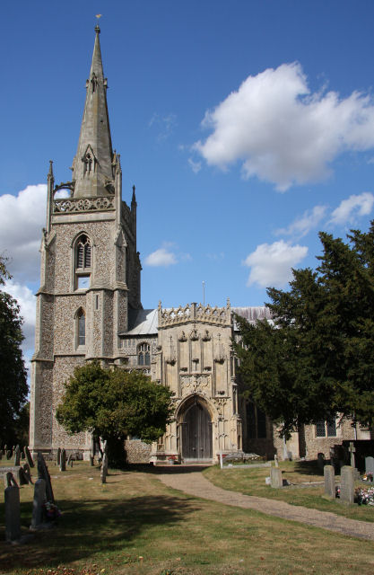 St Mary's Church, Woolpit This landmark church is renowned for its angel roof and 15th century bench ends.